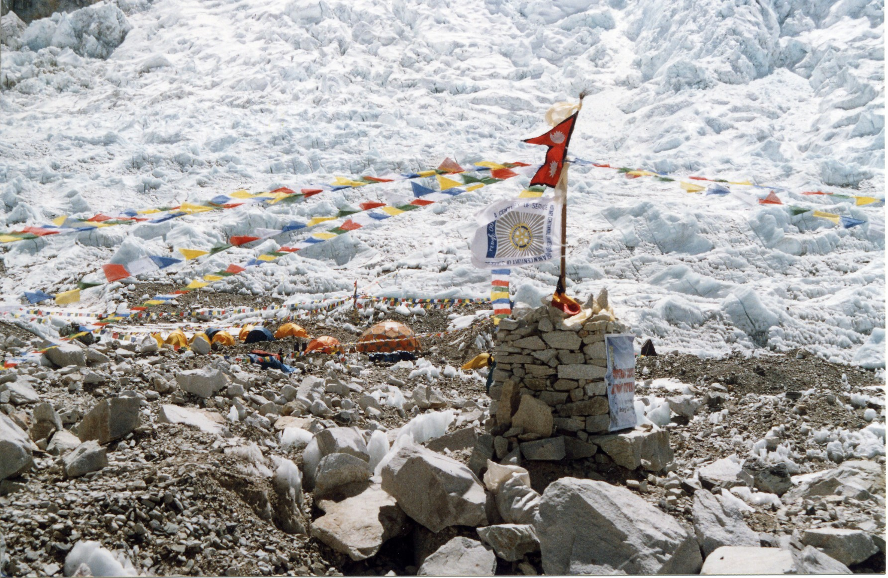 Stupa and Prayer flags at Everest basecamp own photograph taken 2005 --Uwe Gille 09:46, 5 January 2006 (UTC)